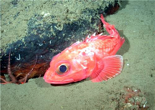 Shortspine thornyhead, Sebastolobus alascanus. A shortspine thornyhead resting on soft substrate.